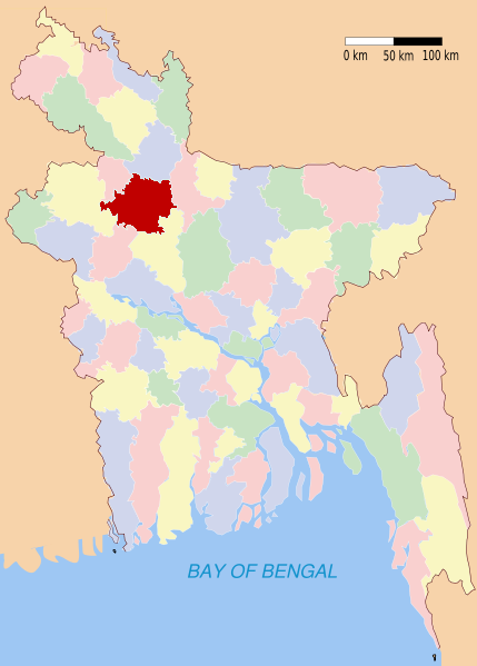 District locator map in red in Bangladesh